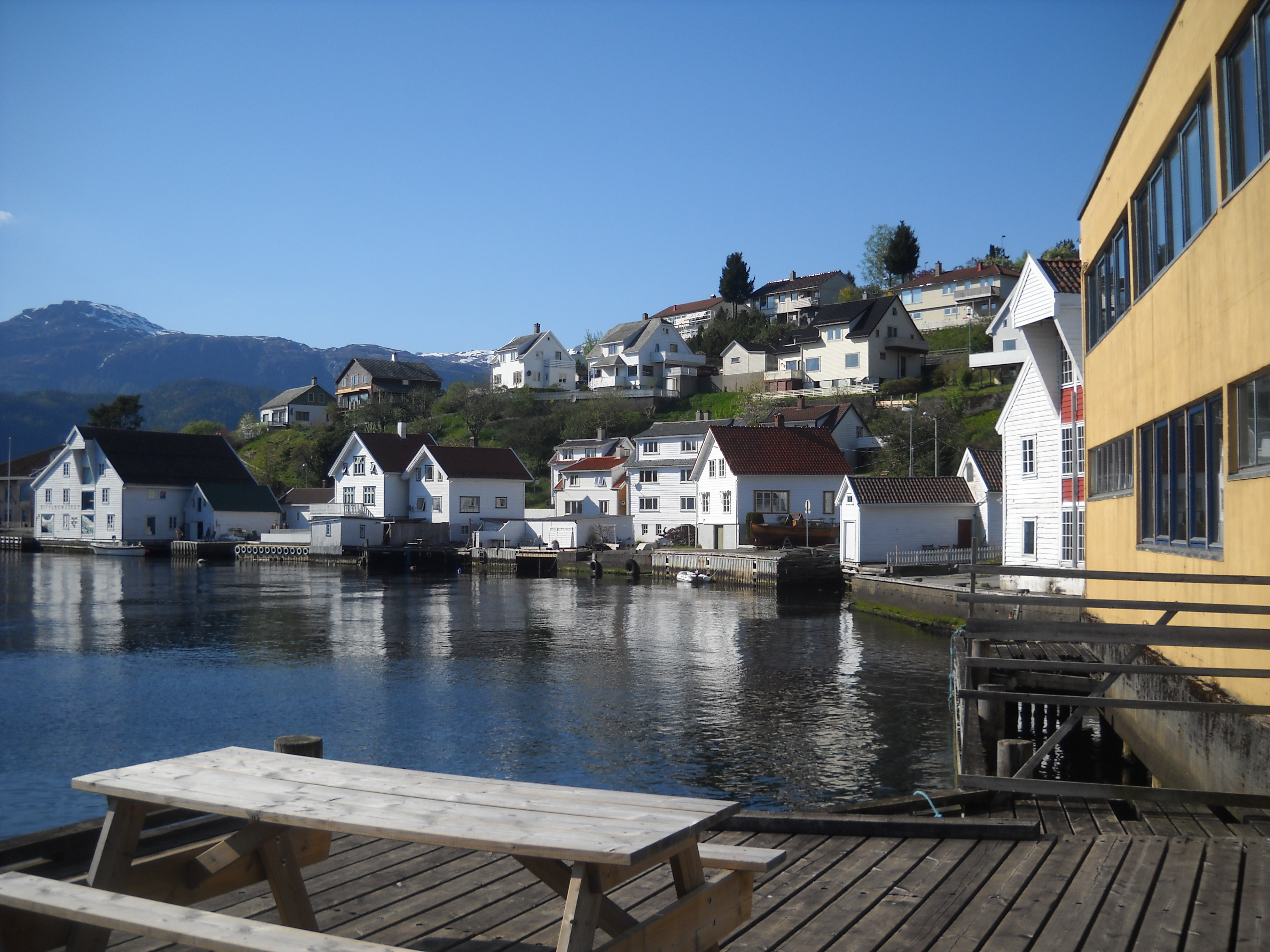 view of city of Sand (Sulgal) in Rogaland, Norway